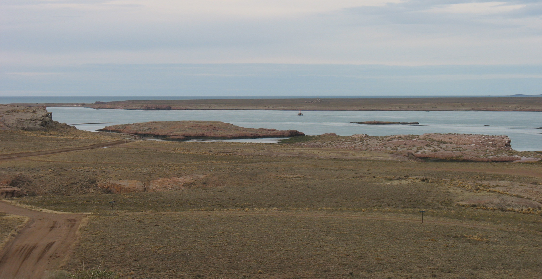 View of the Deseado ria in the central part